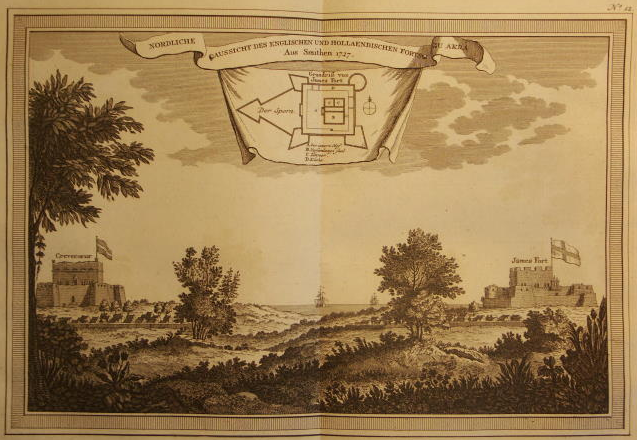 James Fort (British) and Crevecoeur Fort (Dutch) in Accra, Ghana.